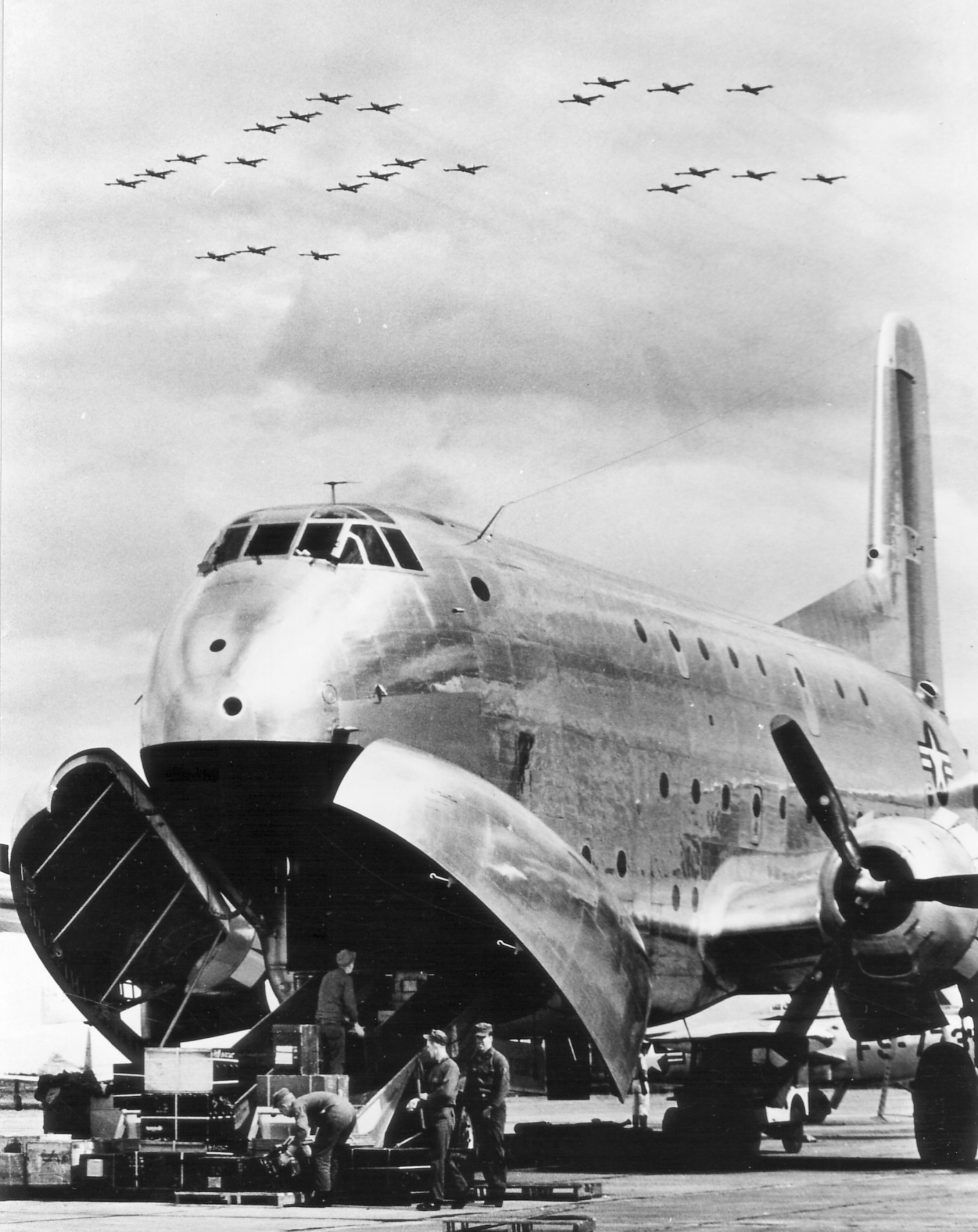 Flashing through the sky above a United States Air Force C-124 Globemaster II, F-84G Thunderjets of the 27th Fighter Escort Wing arrive at a Japan Air Defense Force base in northern Japan after completing a trans-Pacific flight. The F-84s flew 7,800 miles from their home base to Japan and set a new record for over-water flight by single engine fighter aircraft. They flew the last 2,575 miles of their trip using in-flight refueling, October 1952.